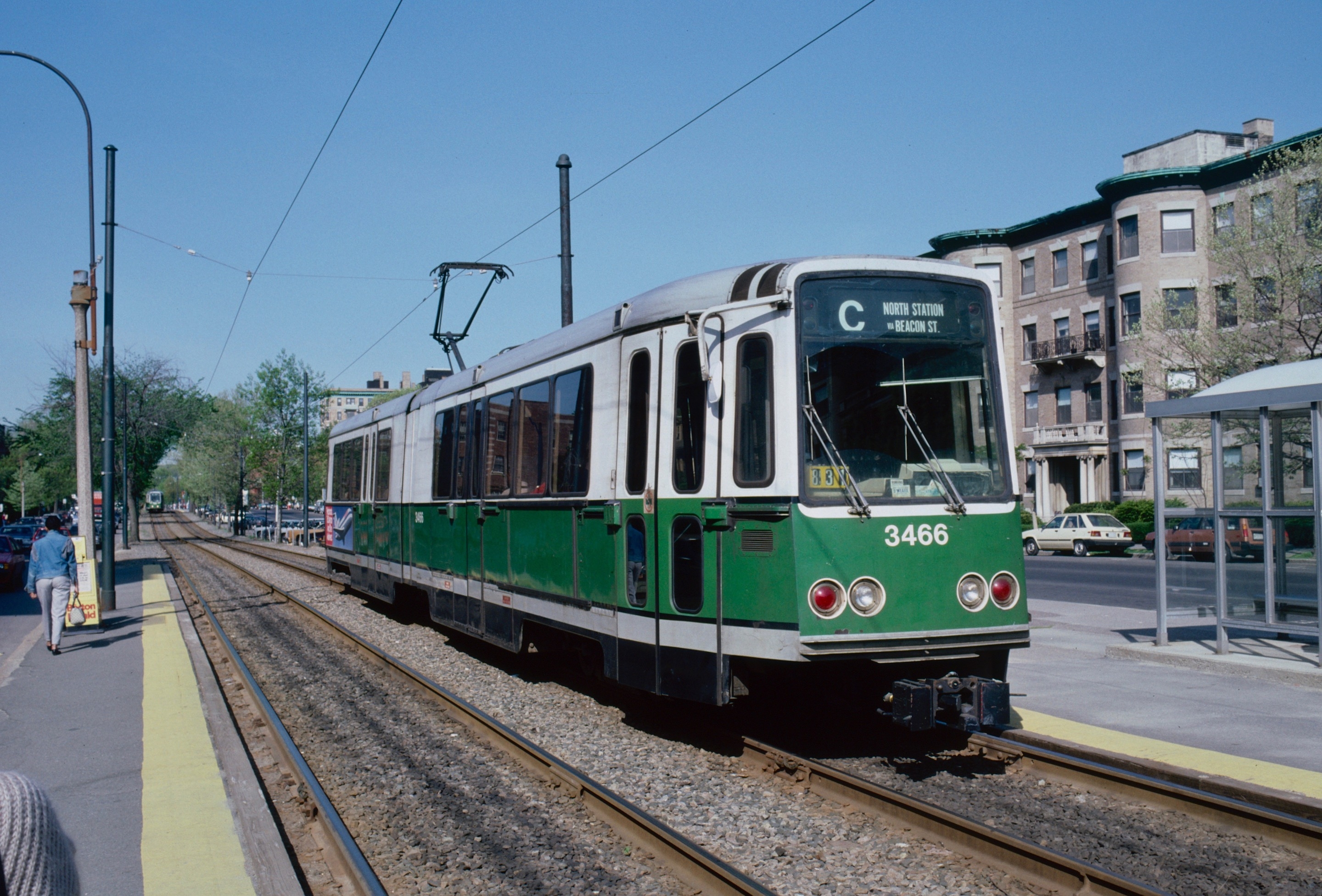 MBTA (Boston) 3466, a 1977 U.S. Standard Light Rail Vehicle (Boeing-Vertol LRV), outbound at the Hawes Street station on the Green Line's "C" Branch, which runs in the median of Beacon Street. Car 3466 is headed away from the camera in this view (but was stationary).